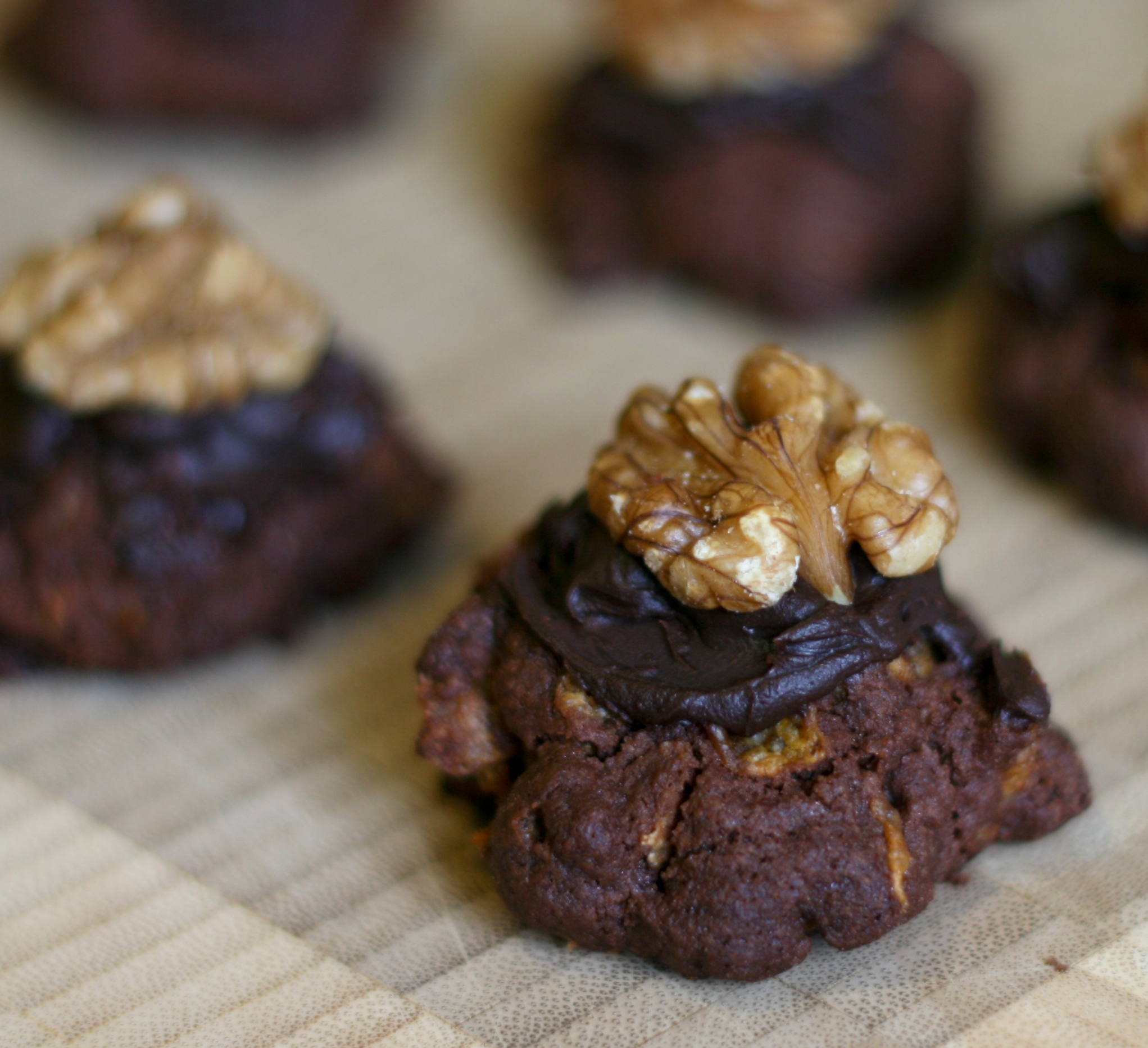 Close-up image of a New Zealand Afghan Biscuit.